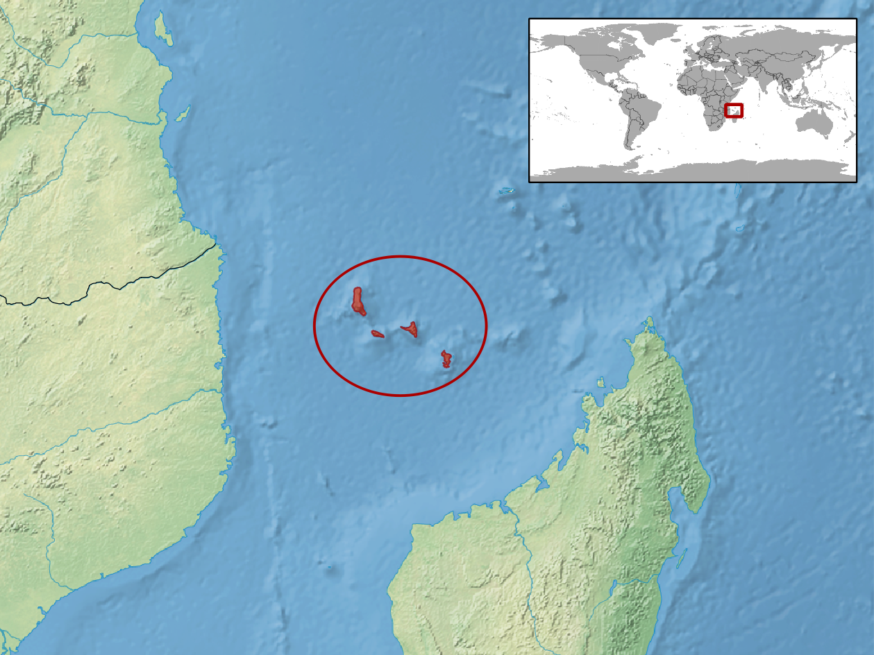 geographic distribution of Phelsuma v-nigra (Native: Comoros)